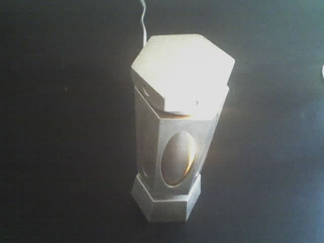 I took the photo myself